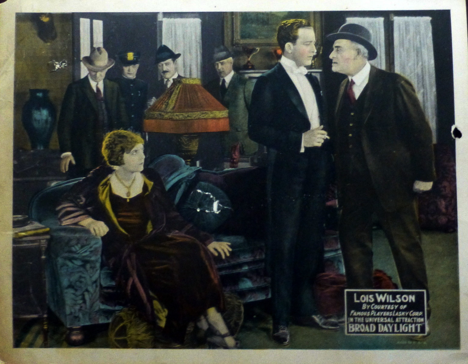 Lobby card for the American crime film Broad Daylight (1922).